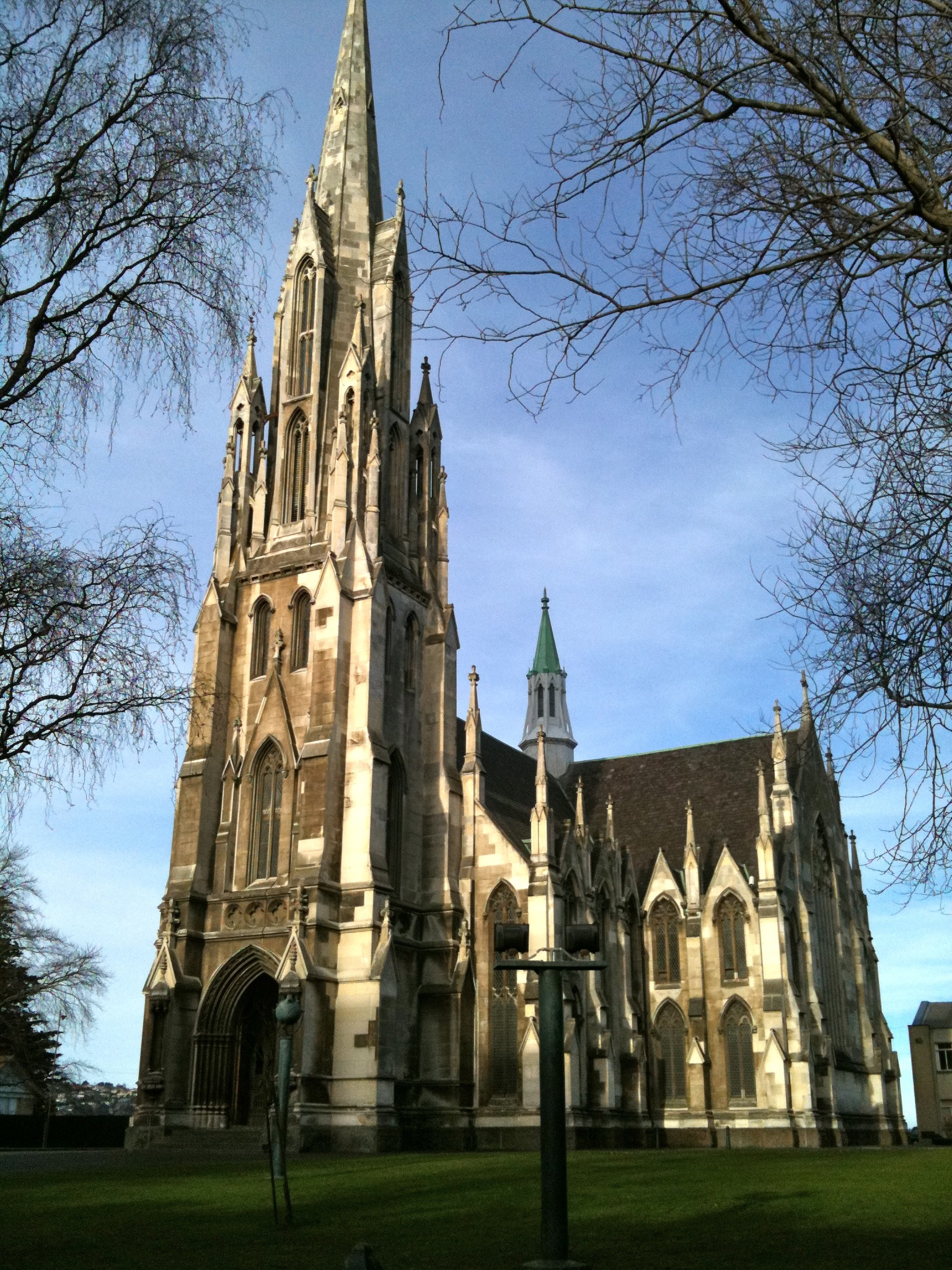 First Church of Otago. A monument to science.